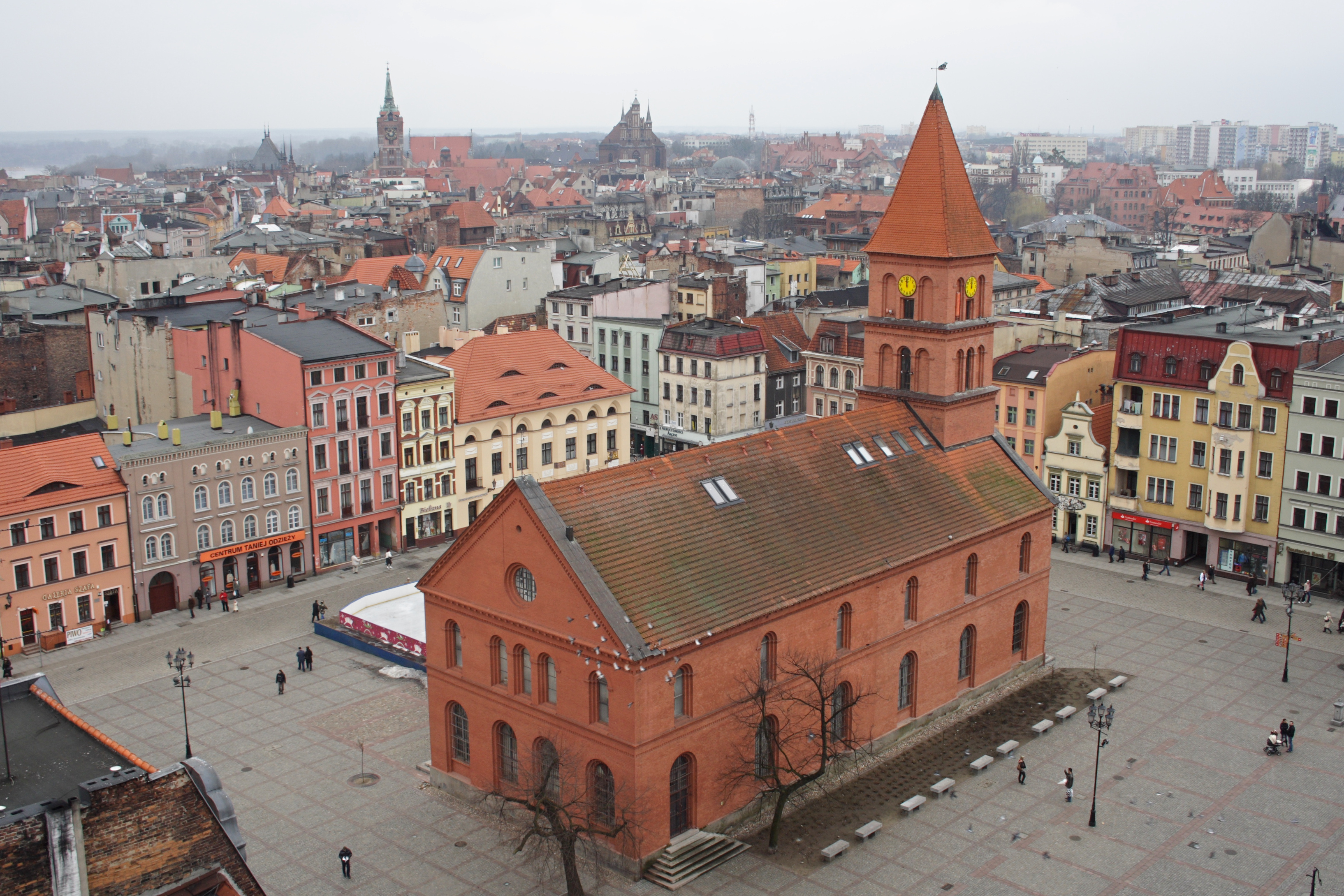 Rynek Nowomiejski (New-Town Market Square), seen from the tower of St. James' church